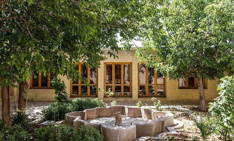 Ayatollah Ruhollah Khomeini's birthplace at Khomein